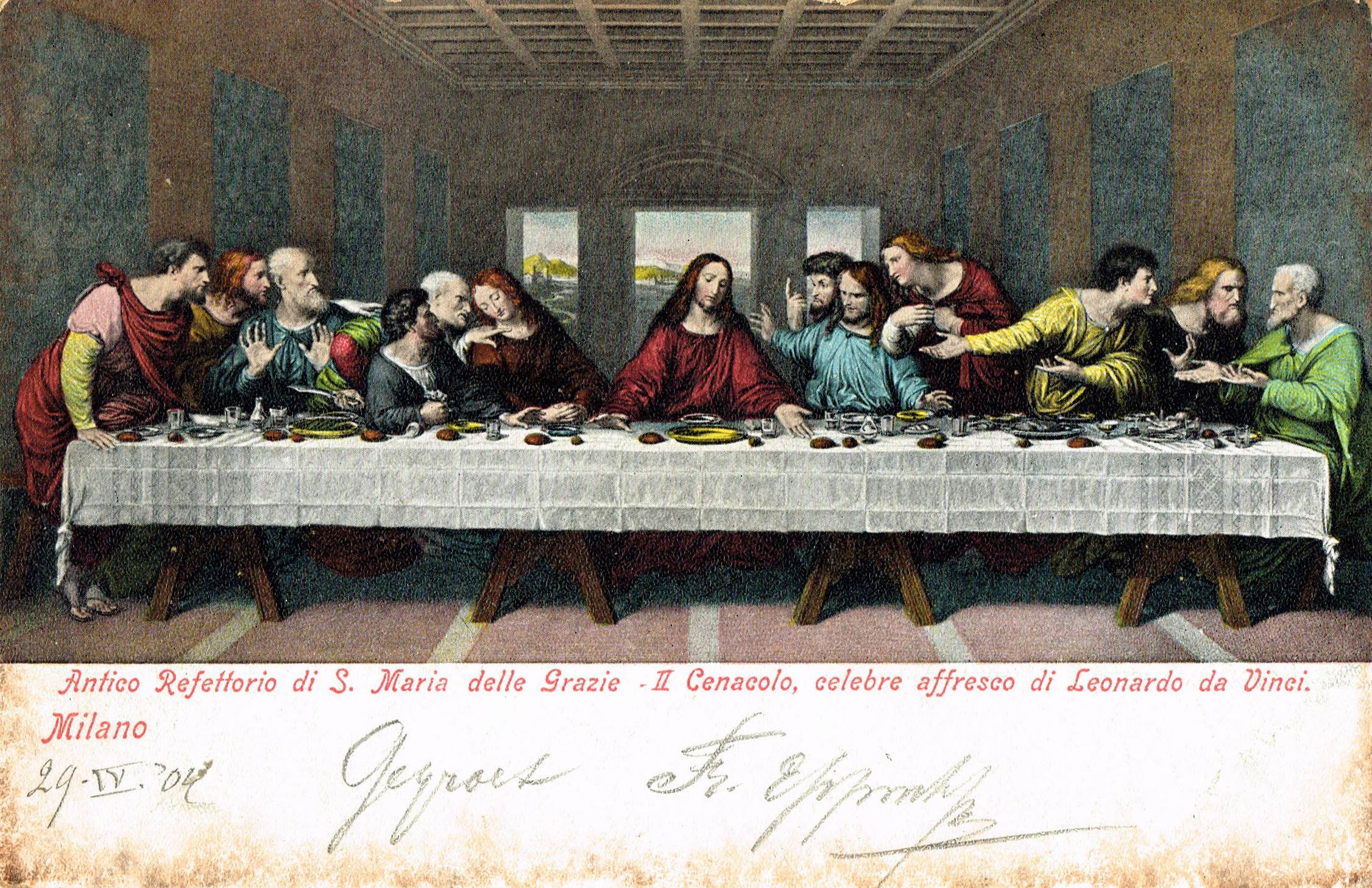 Postcard of Last Supper by Da Vinci published in or before 1904